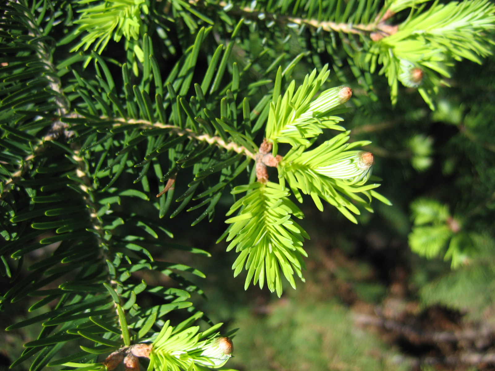 Needle fir (Abies holophylla), cultivated in Wrocław University Botanical Garden, Wrocław, Poland.